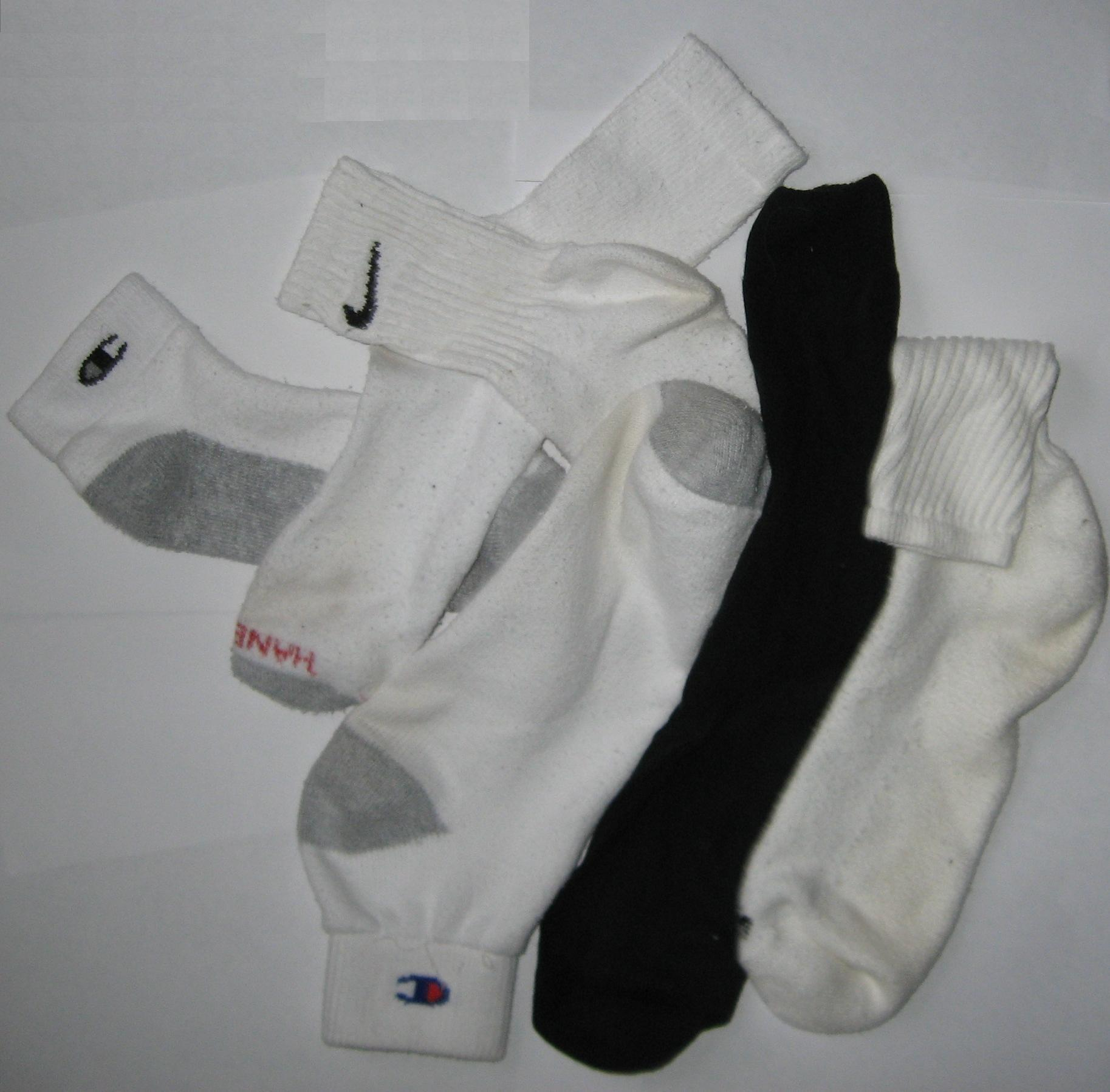 A picture of various brands of socks